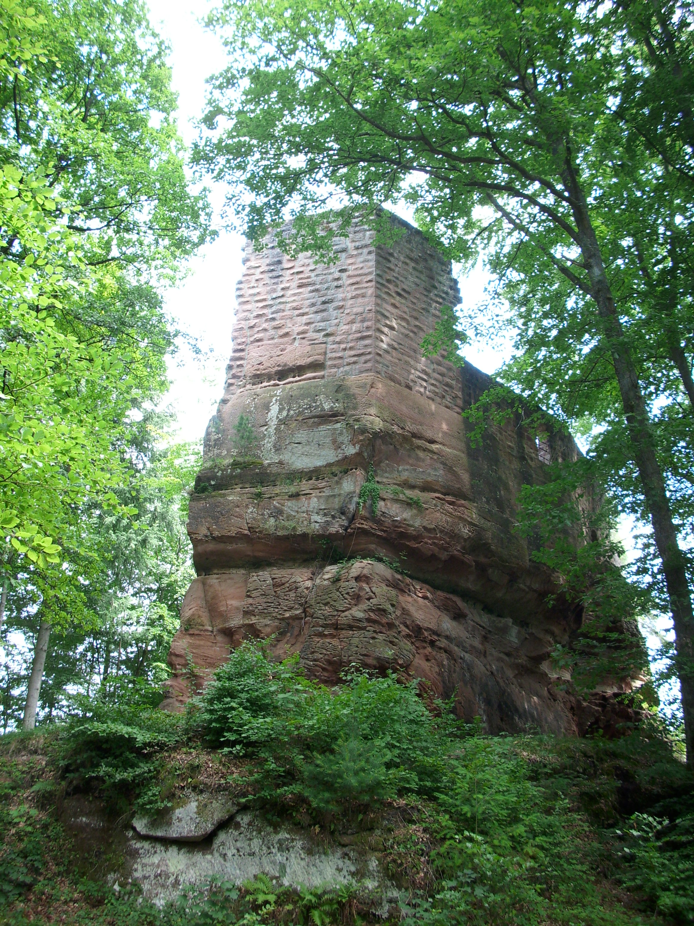 Ruins of former castle Blumenstein, Rhineland-Palatinate, Germany